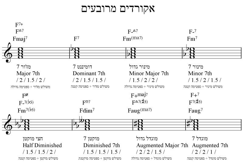 Seventh chords, in Hebrew.